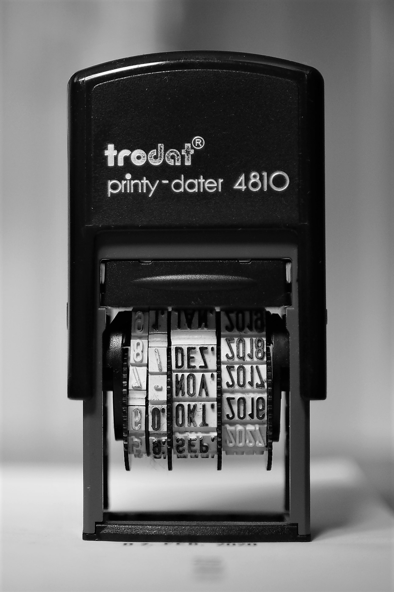 Self-inking date stamp trodat printy-dater 4810 with German-language month abbreviations. Fabricated around 2015.